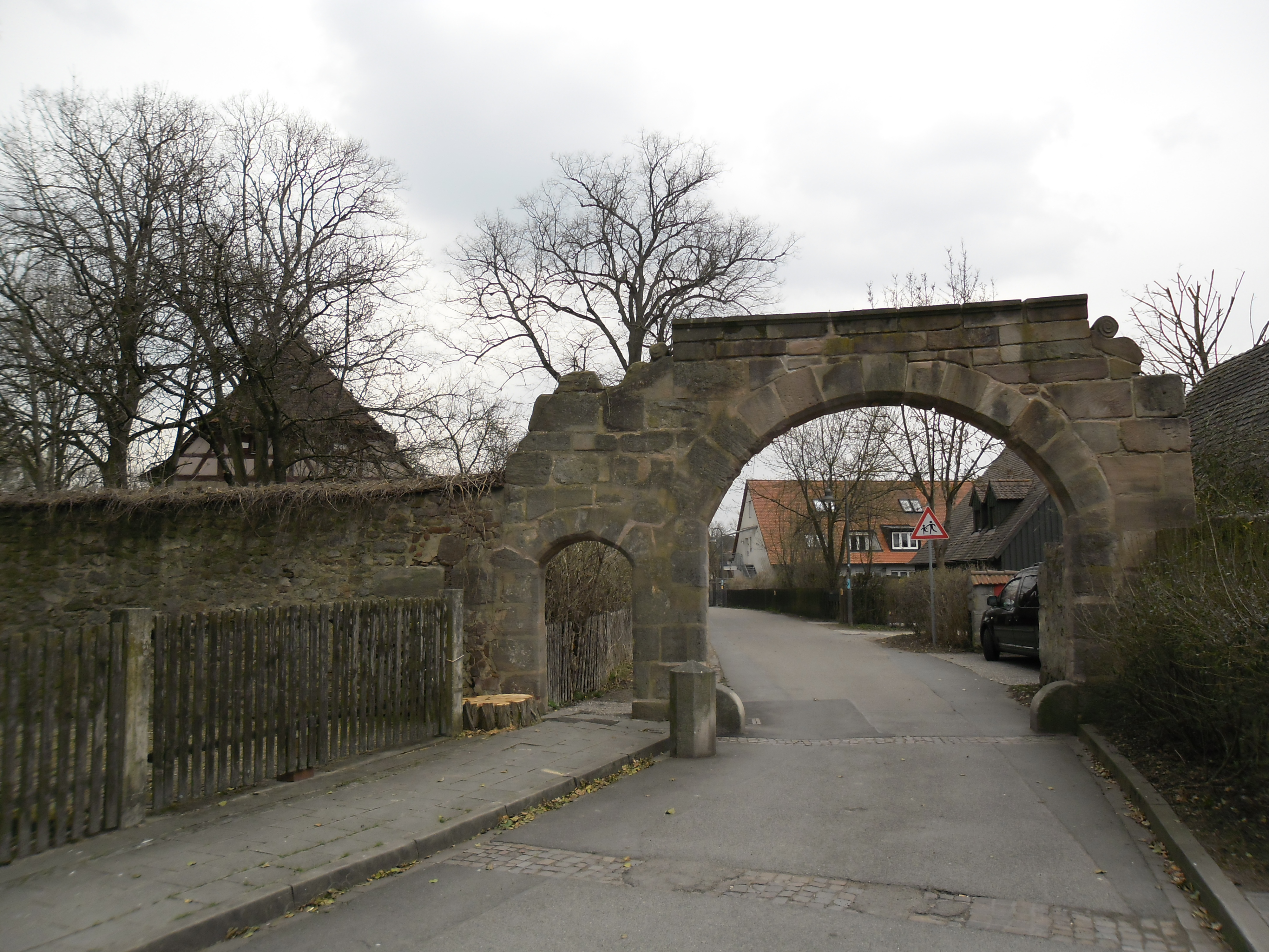 Western gate to the former monastery